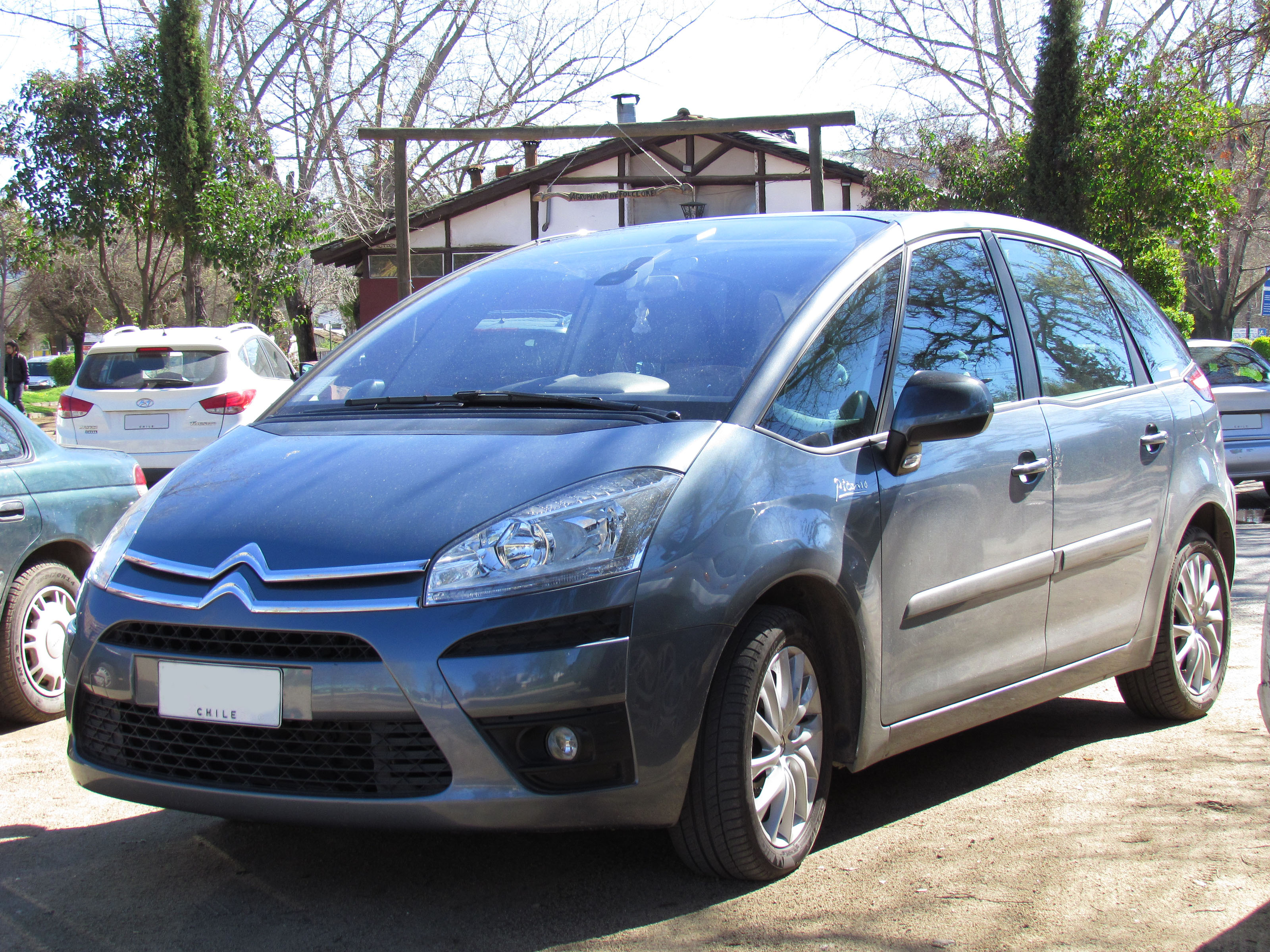 Citroen C4 Picasso 2.0 HDi Seduction 2013